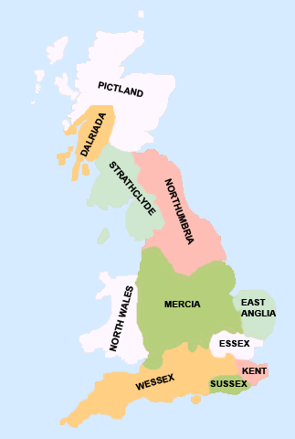 This is an image of the 802 kingdoms of what is now known as Great Britain (England, Scotland and Wales). I created this image. Created under this guidence of this of historical source of a 802 map of Britain, which itself was developed by cartographer and historian William R. Shepherd.